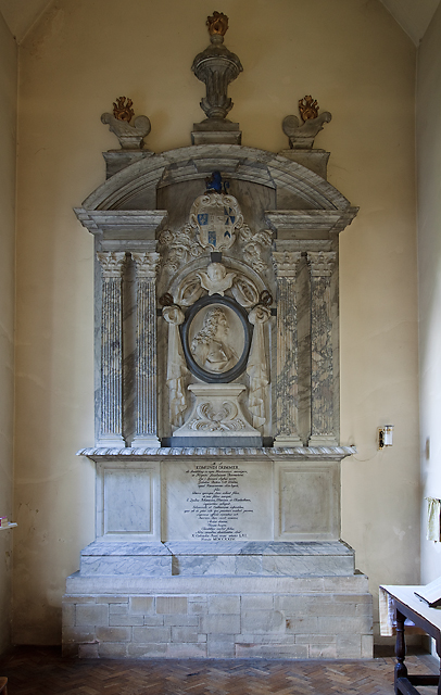 Edmund Dummer monument - St Mary's church, South Stoneham